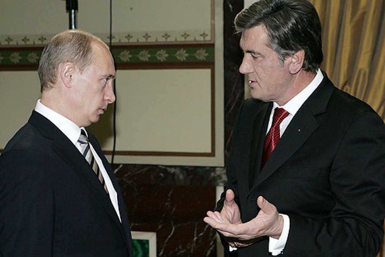 GOVERNMENT RECEPTION HOUSE, MOSCOW. With Ukrainian President Viktor Yushchenko.